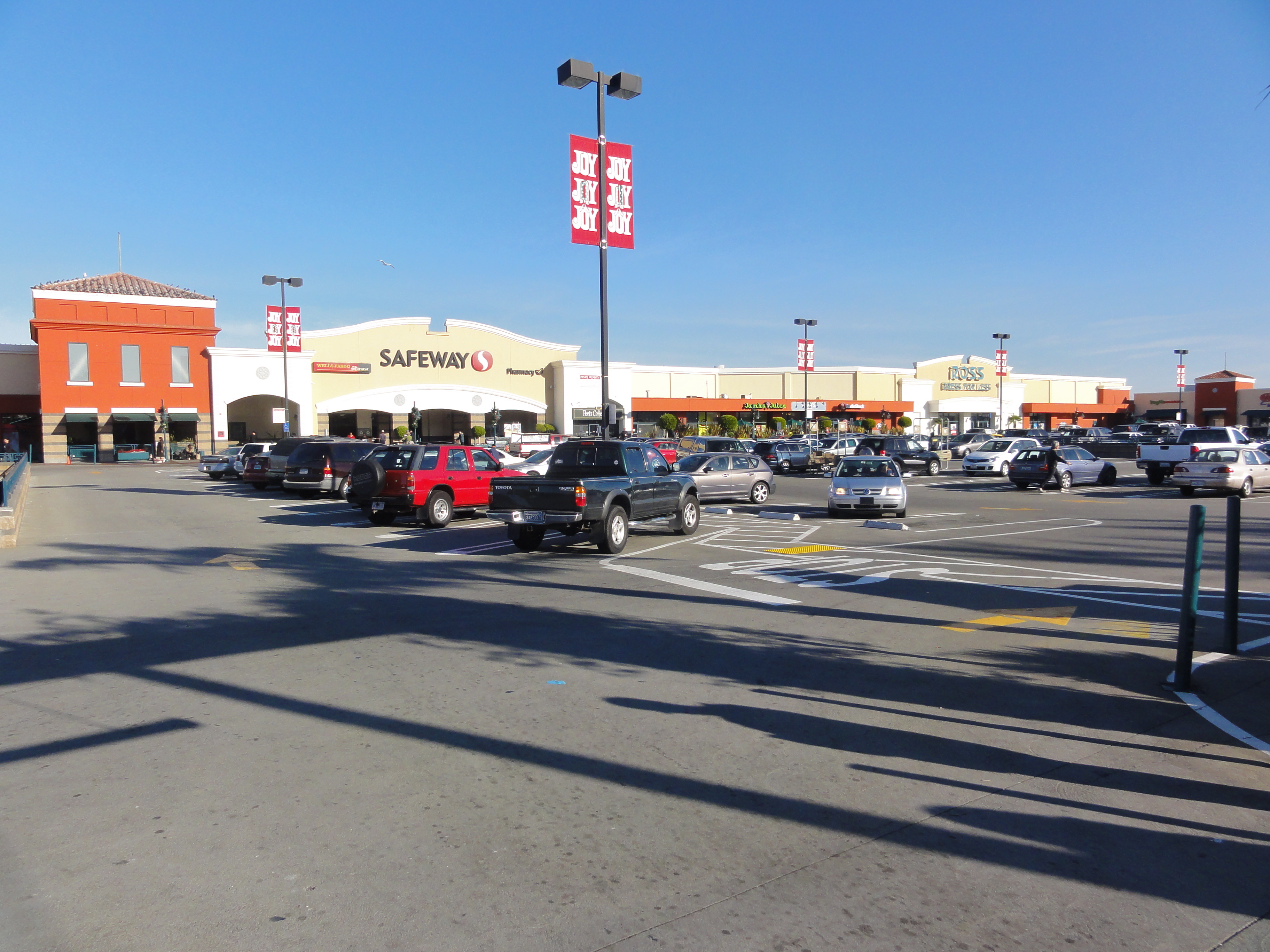 A shopping center including a Safeway supermarket now occupies the former site of Seals Stadium